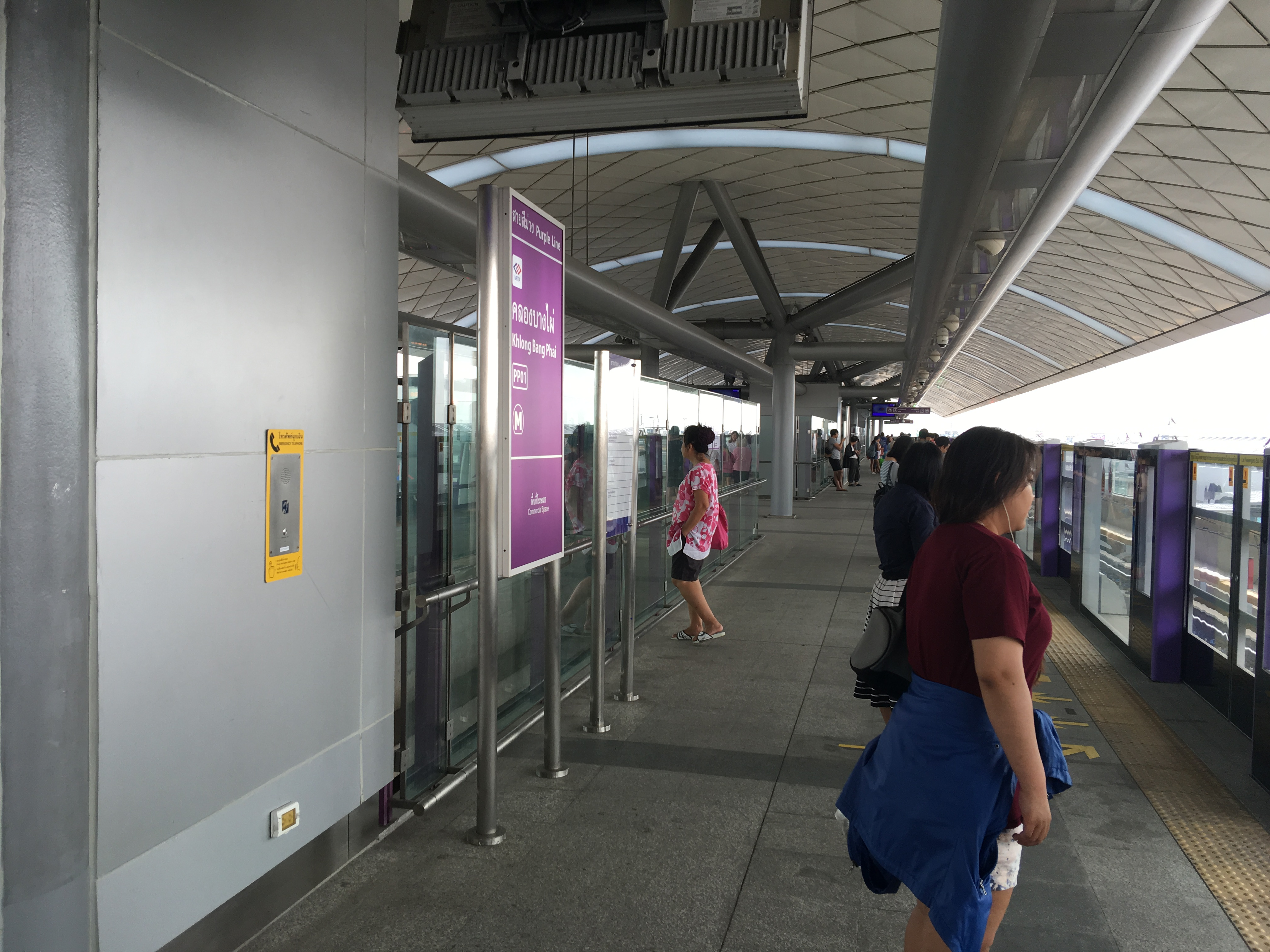 Khlong Bang Phai Station - Inbound platform